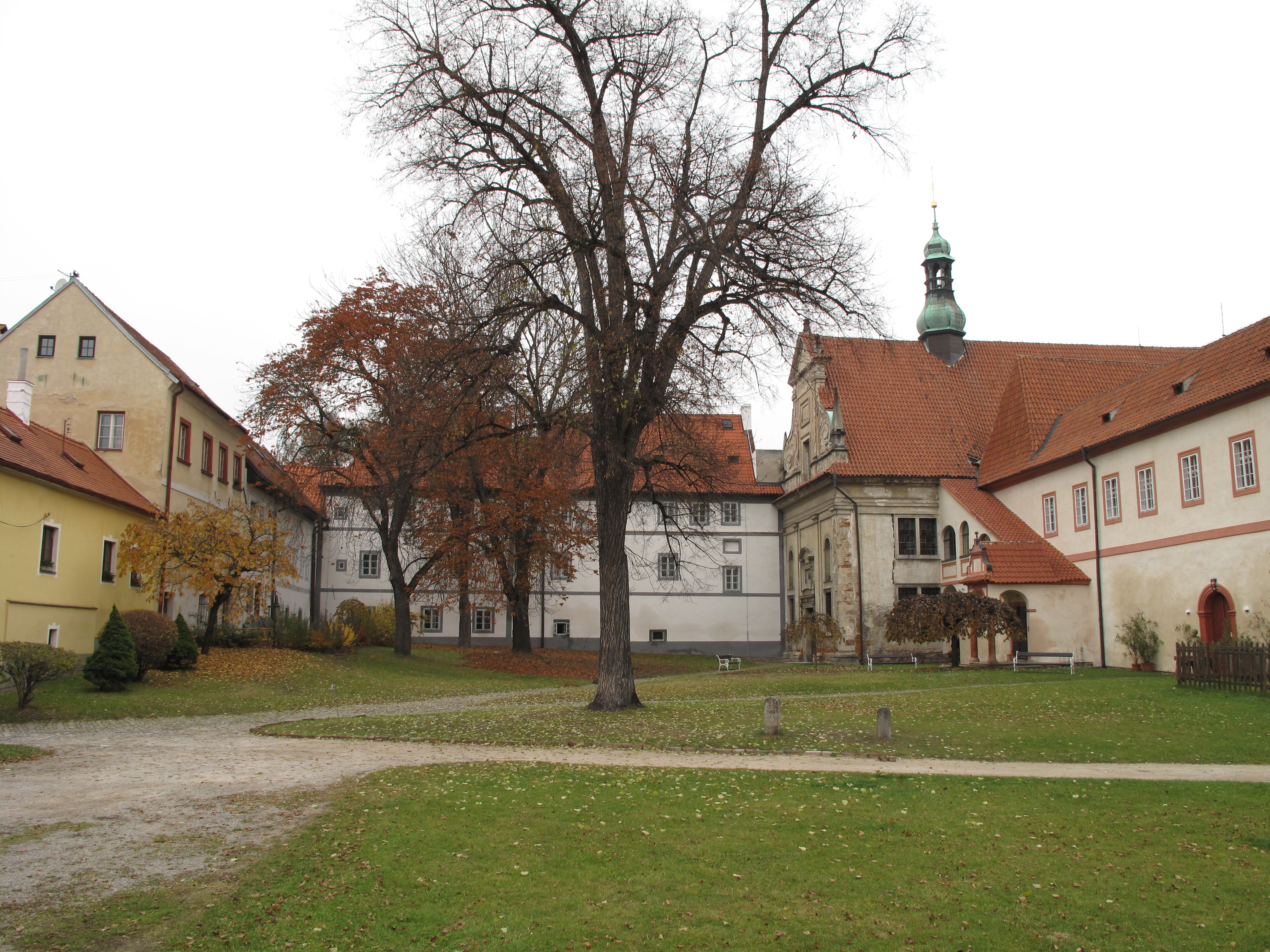 Tramín, Latrán, Český Krumlov, Czech Republic.